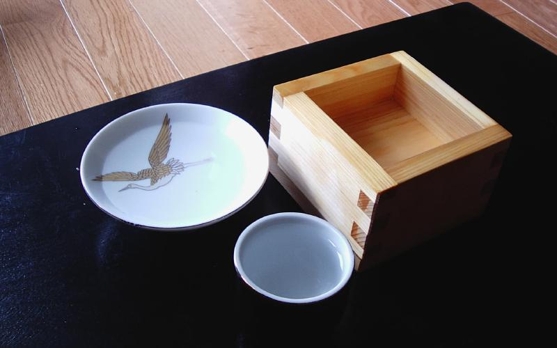 Sake in three cups photographed by the Epopt.